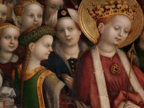 Detail, Altarpiece of the City's Patron Saints (The Dombild Altarpiece)